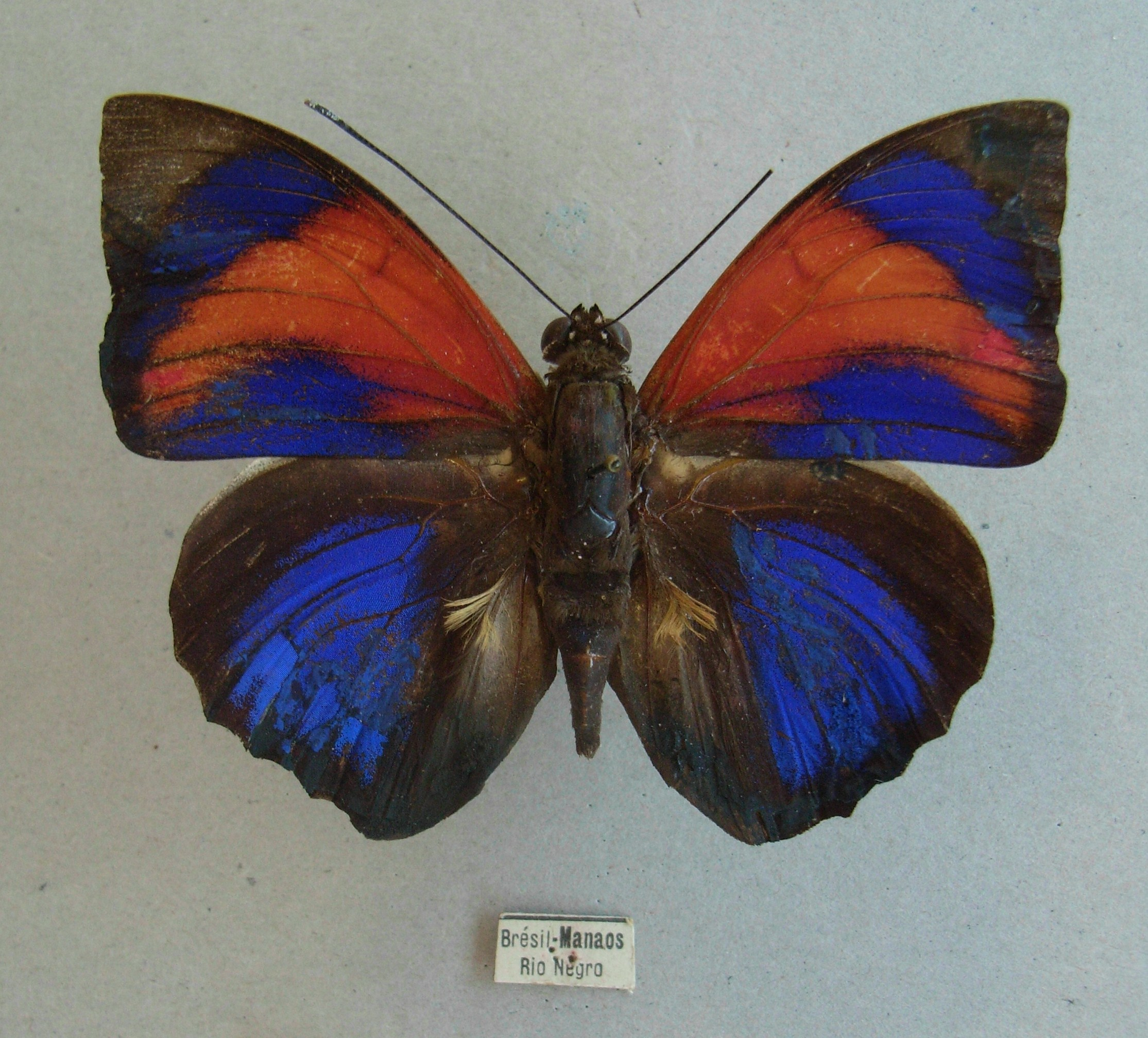 Type of Agrias claudina lecerfi